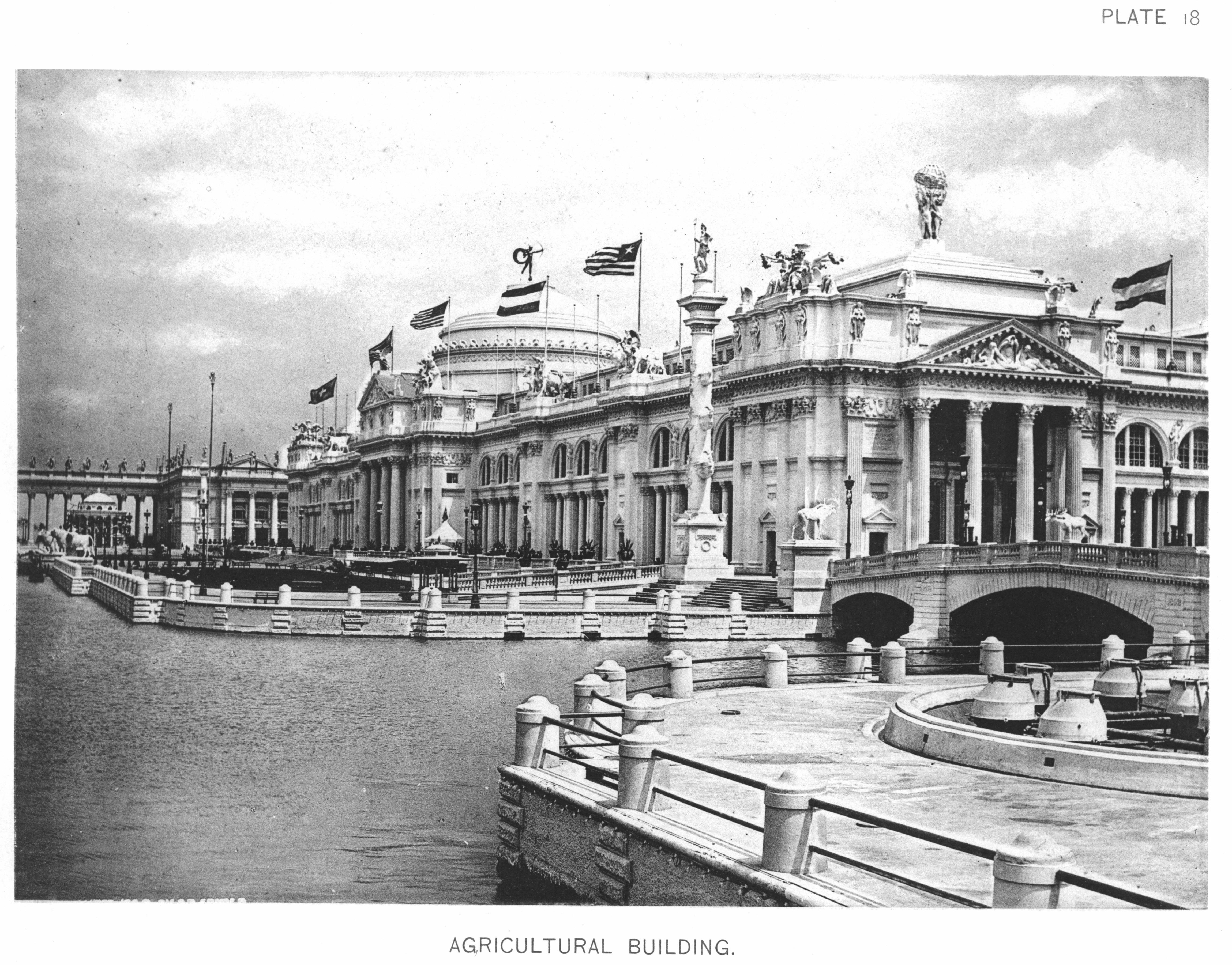 Official Views Of The World's Columbian Exposition: Agricultural Building